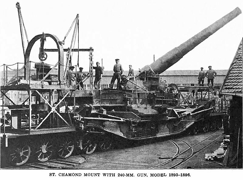 Photograph of French 240-mm gun Model 1893-1896, on St Chamond railway mounting.